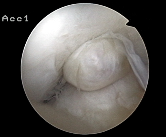 Arthroscopic picture of a cyclops located in a patients knee.